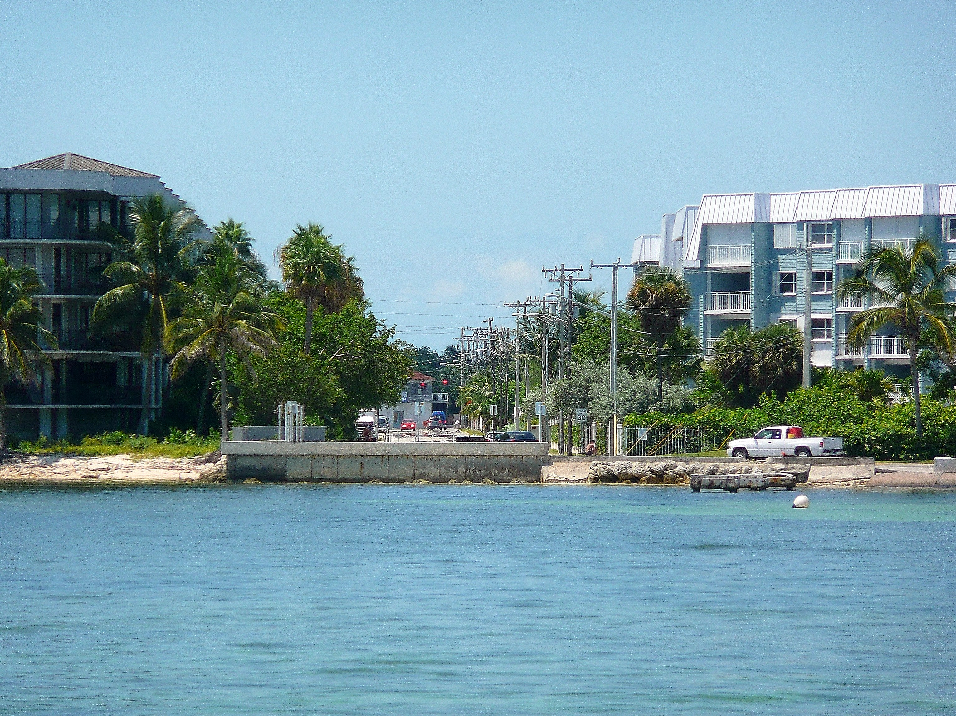 Digital photo taken by Marc Averette. The beginning of Florida State Road A1A in Key West, Florida.